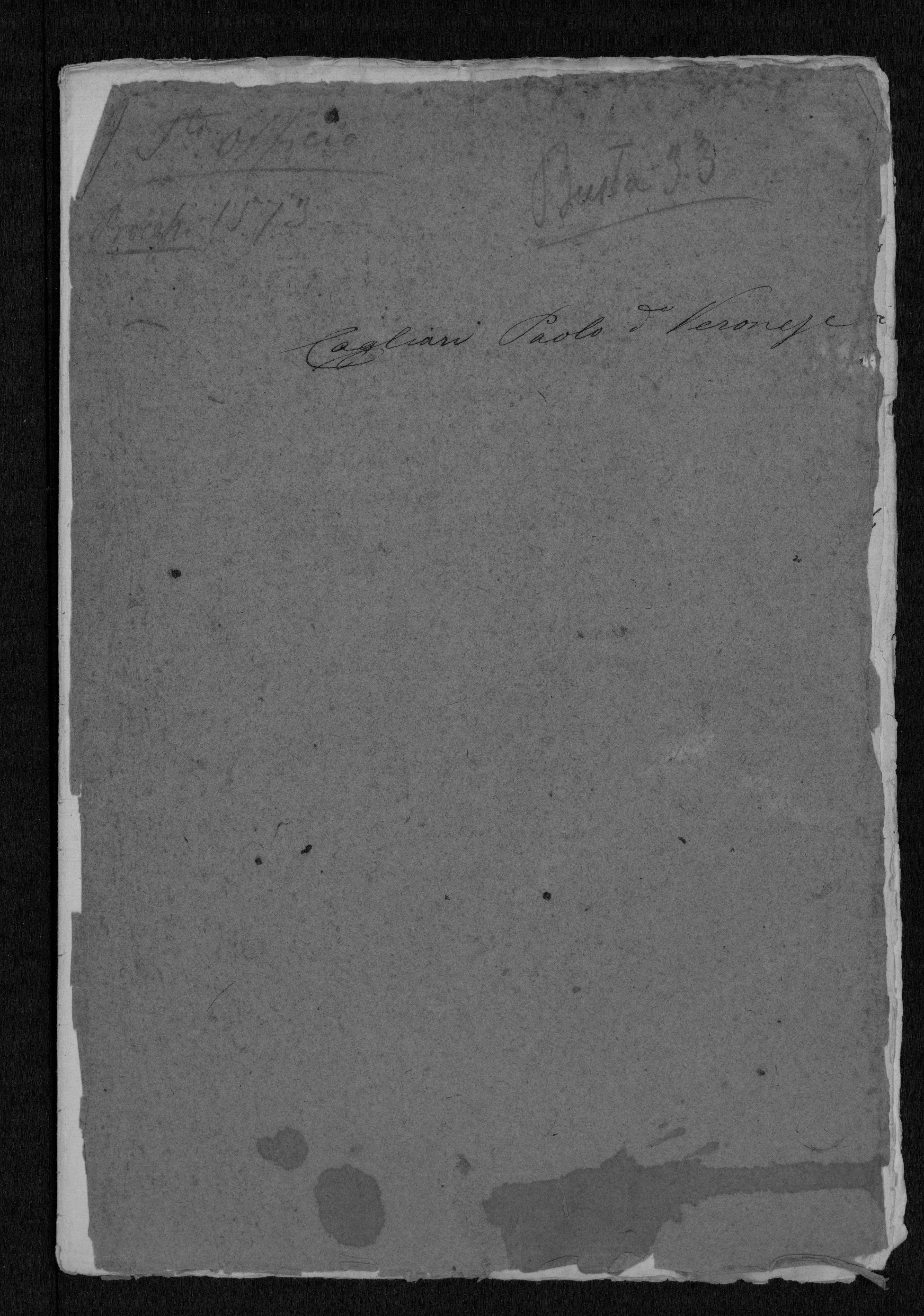 Cover of Veronese Inquisition Transcript from 1573